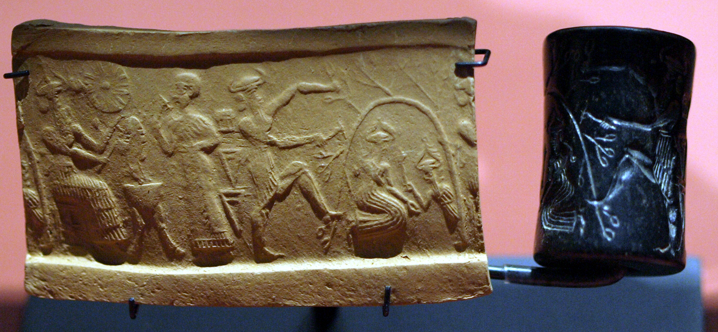 Cylinder seal: God sun of summer burning plants and Dumuzi the god of fertility buried Girsu - Akkad period, c. 2340 - 2150 BC Chlorite Museum of the Louvre AO 11566